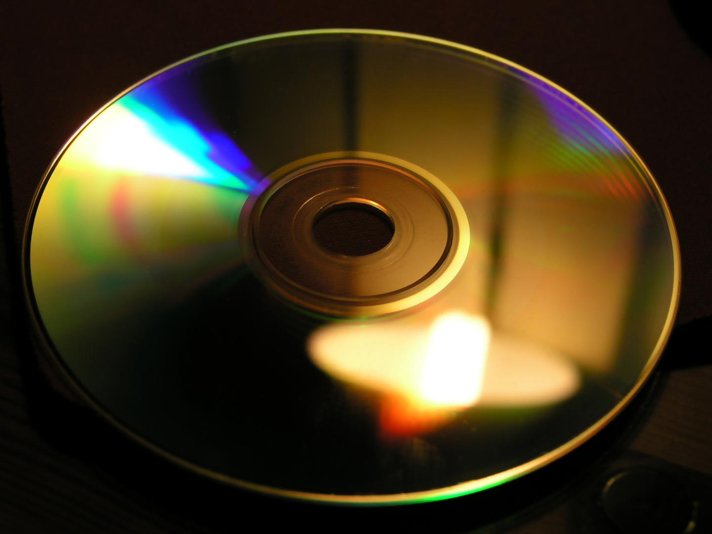 Interference colors. Iridiscente reflections on a compact disc.